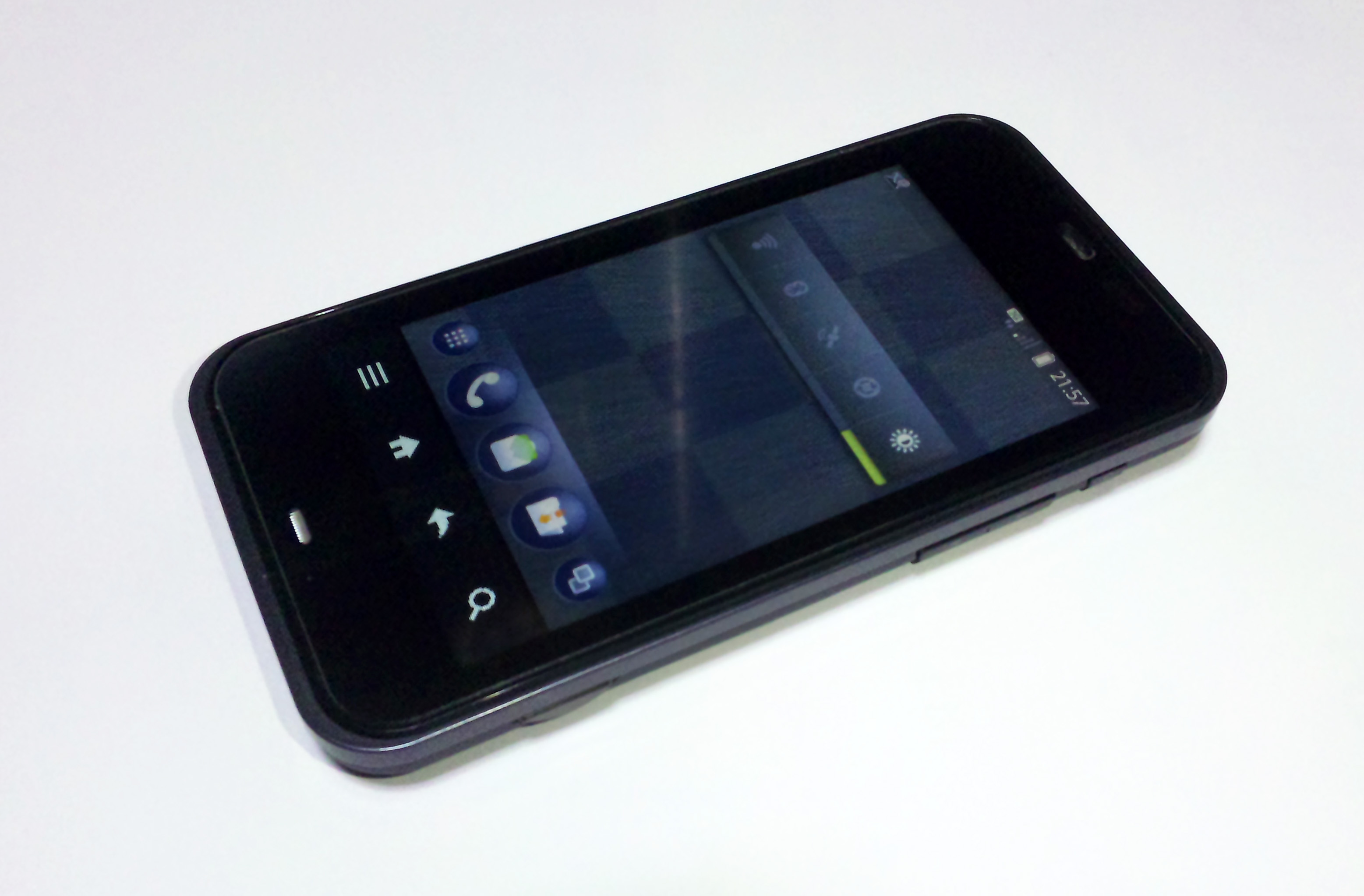 Sharp Smartphone Android IS03